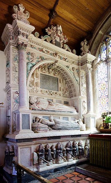 Monument in St Werburgh's Church, Wembury, Devon, to Sir John Hele (c.1541–1608) of Wembury, serjeant-at-law, a Member of Parliament for Exeter and Recorder of Exeter (1592-1605). He built at Wembury one of the grandest houses in Devon, since demolished.